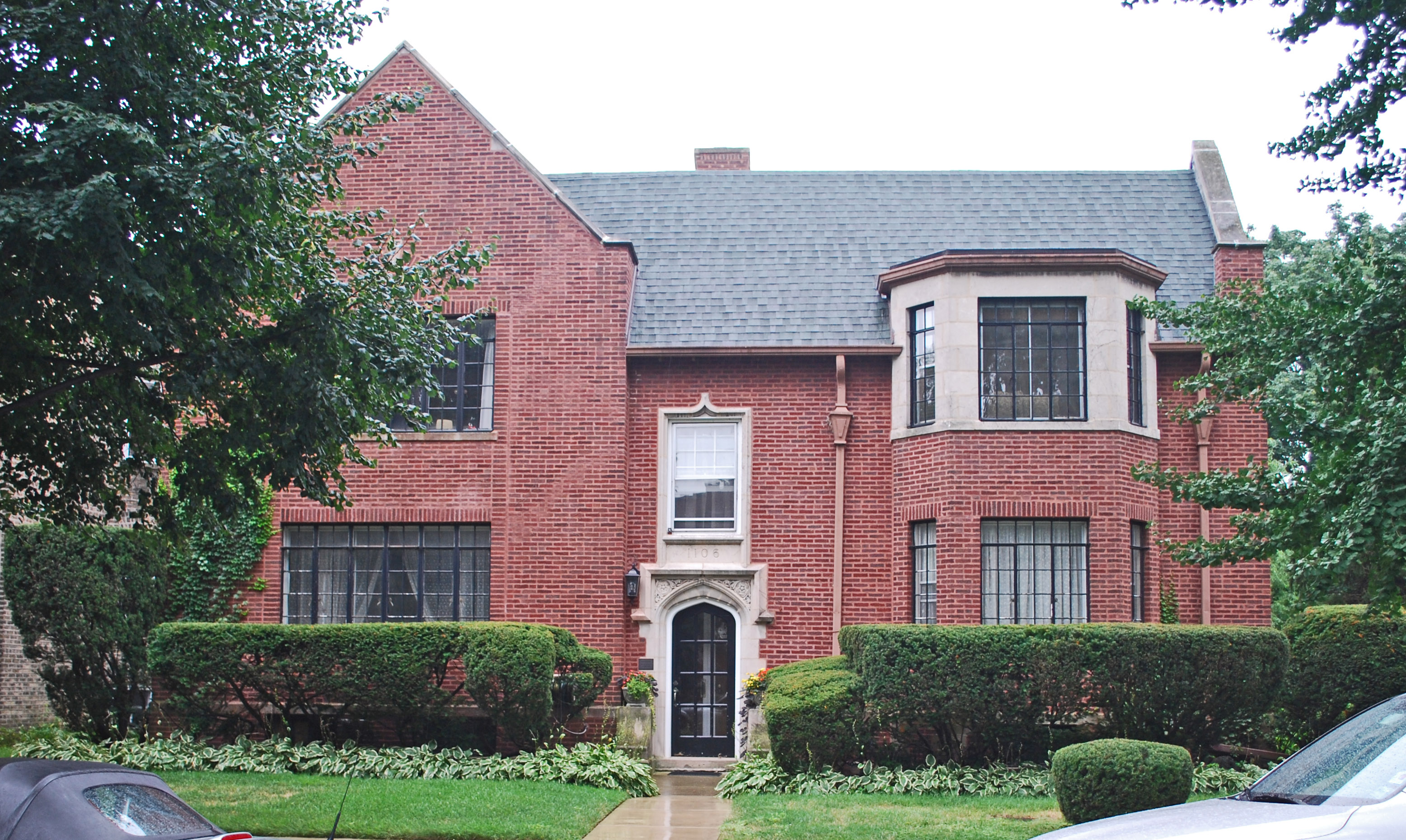 Building at 1106 Seward, Evanston IL